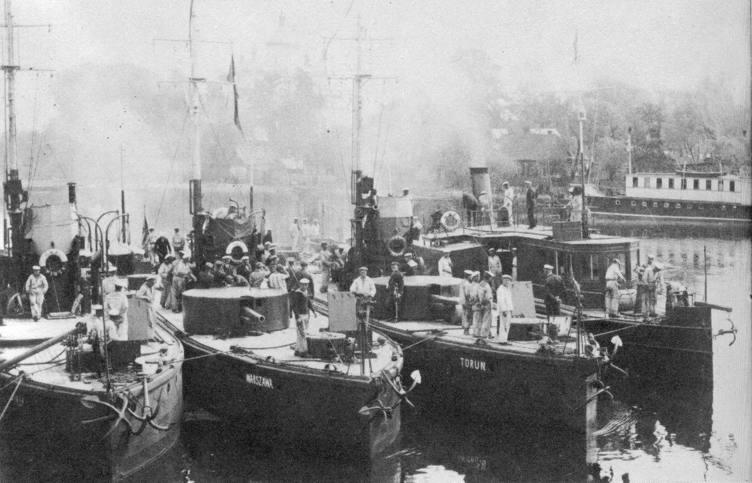 Polish Warszawa-class river monitors in Pinsk. From left: Pińsk, Warszawa, Toruń and staff ship Generał Sikorski